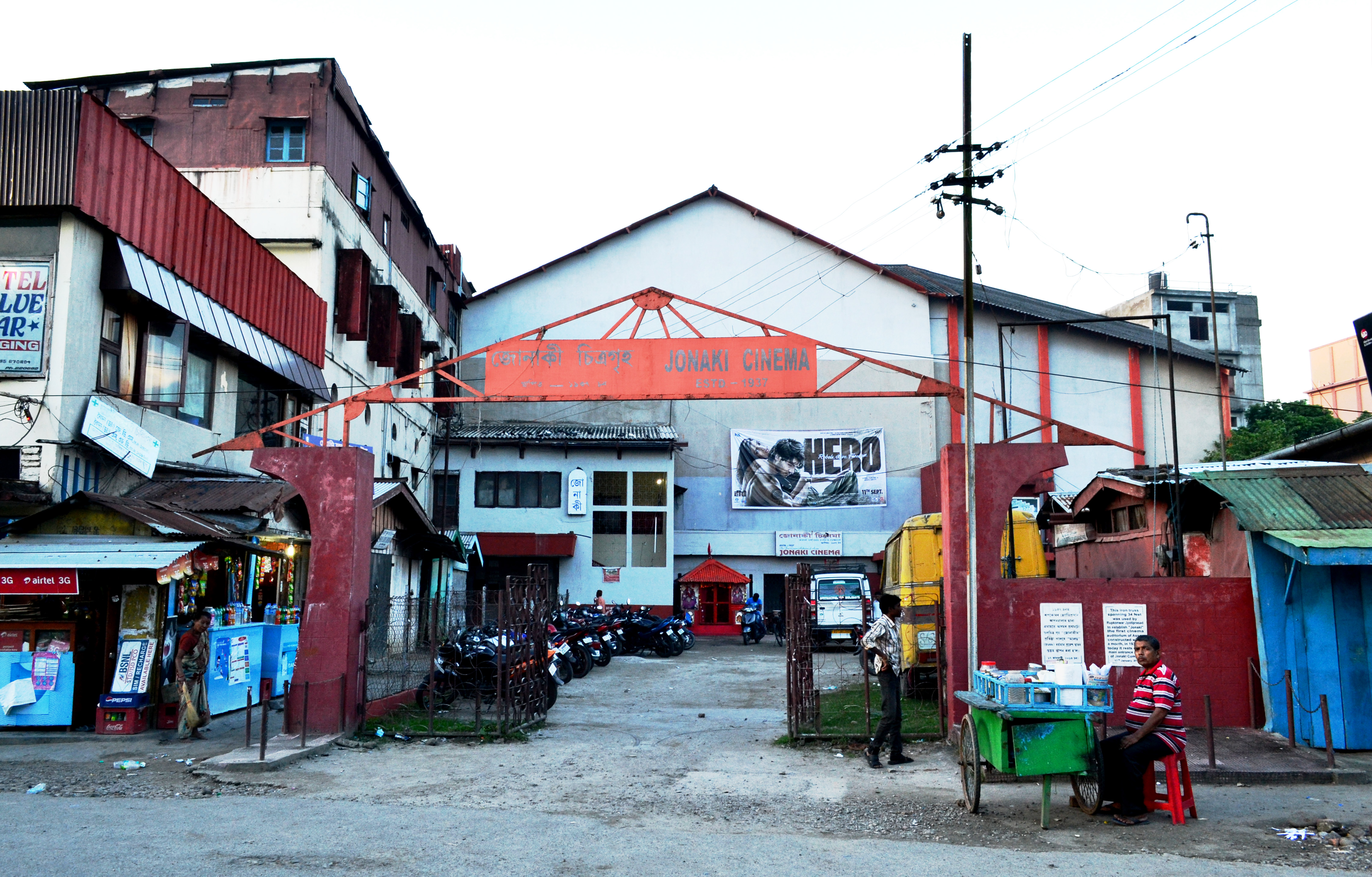 The First Cinema Hall of Assam that was established in Tezpur namely Jonaki Hall in 1937.